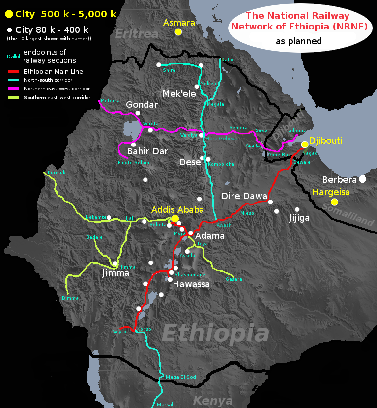 Map of the National Railway Network of Ethiopia in different colors ordered for transport corridors.